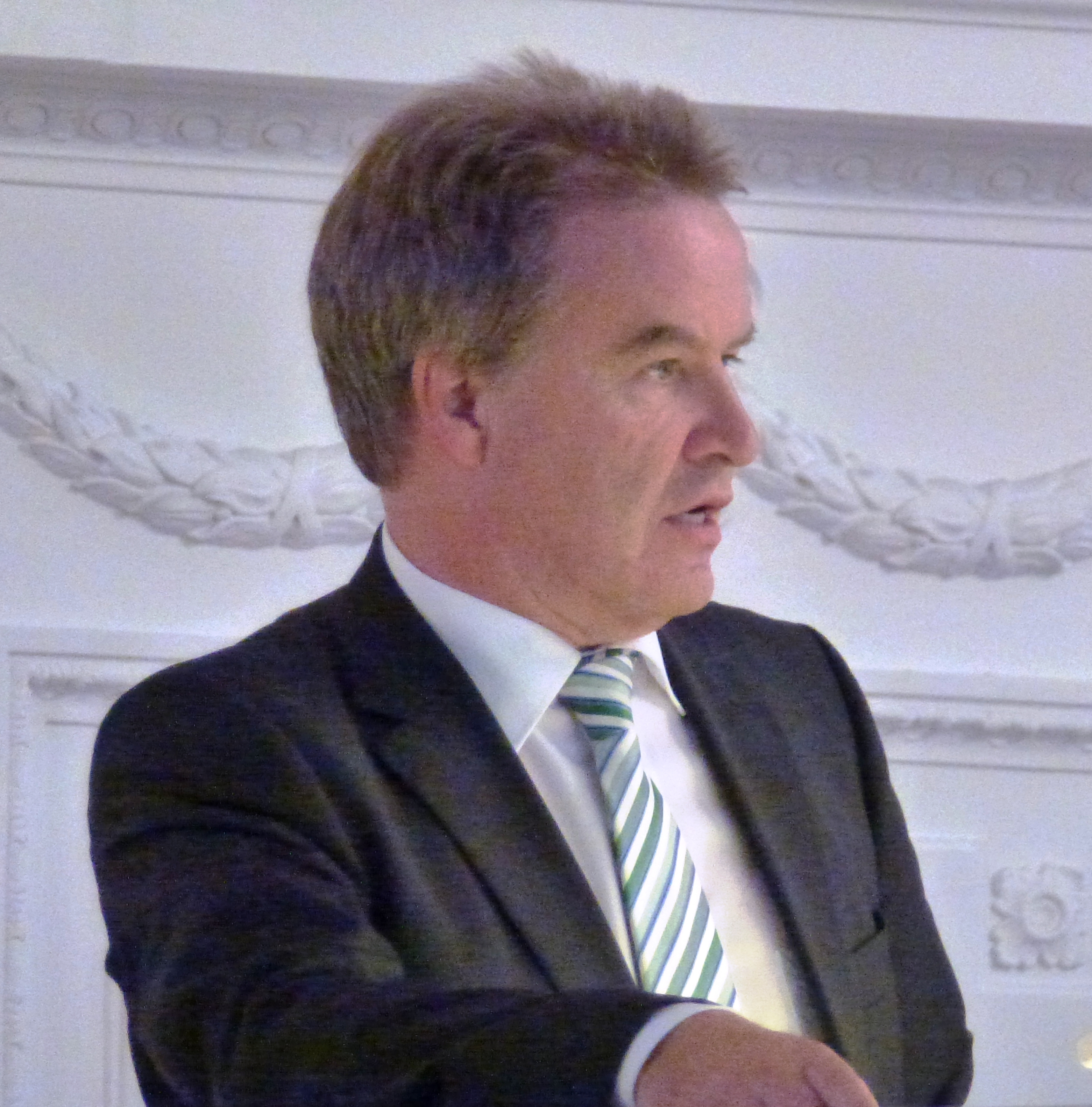 Franz Untersteller – Minister of Environment in Baden-Württemberg 2011